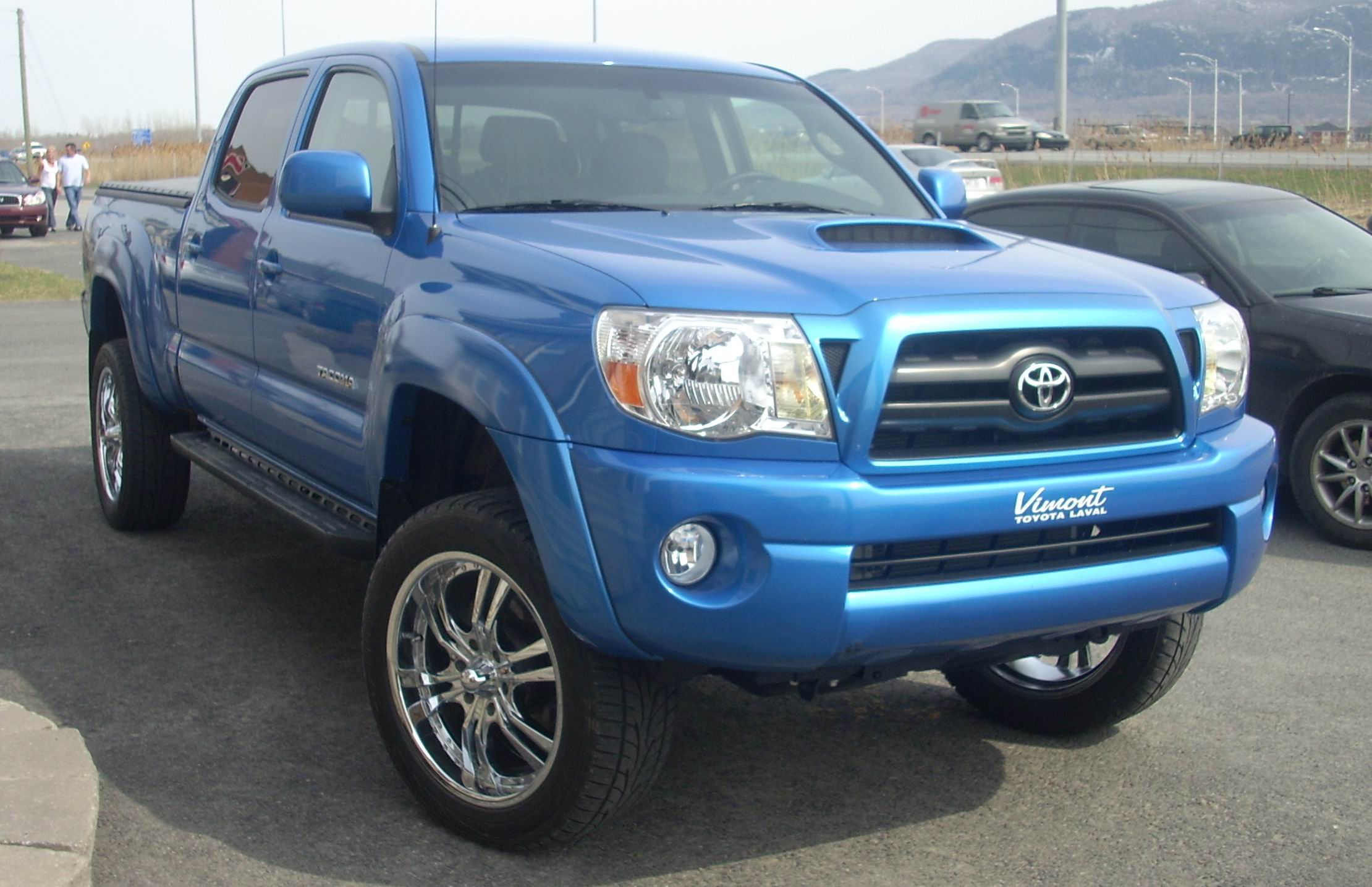 2005-present Toyota Tacoma photographed in St. Hyacinthe, Quebec, Canada.